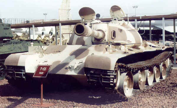 Although labeled T-55, this vehicle is actually a T-54A or a Type 59, recognizable by the ventilation dome visible on the turret roof, above the main gun. Many T-54s were updated to T-55 standards, and the two models are often treated as the same (and referred to as T-54/T-55).